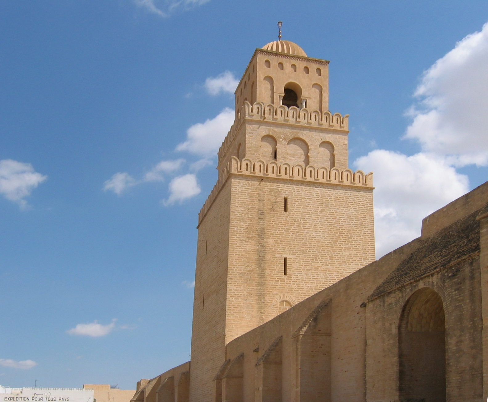 Minaret of the Great Mosque of Kairouan